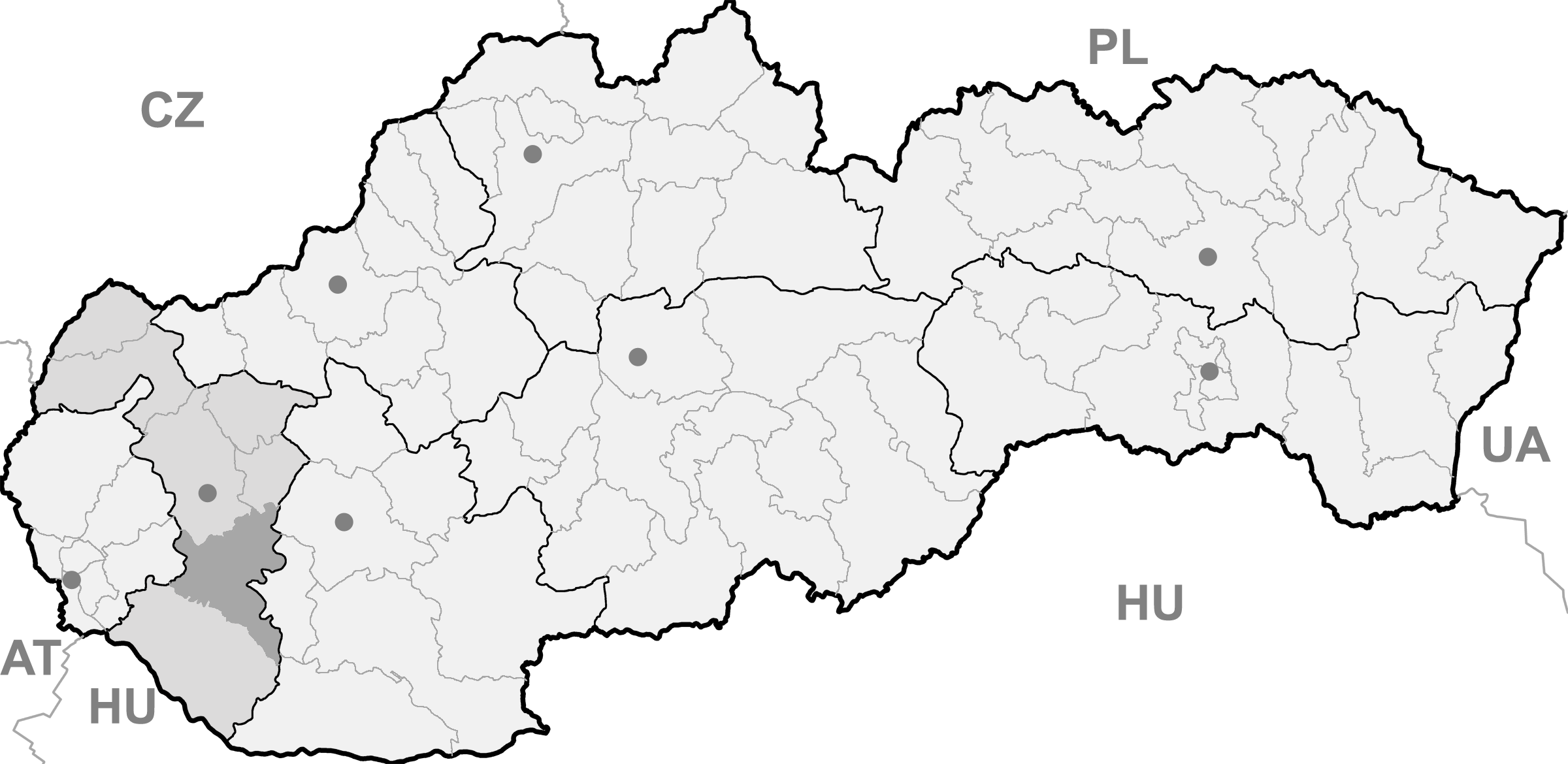 Map of Slovakia, Galanta district and Trnava region highlighted